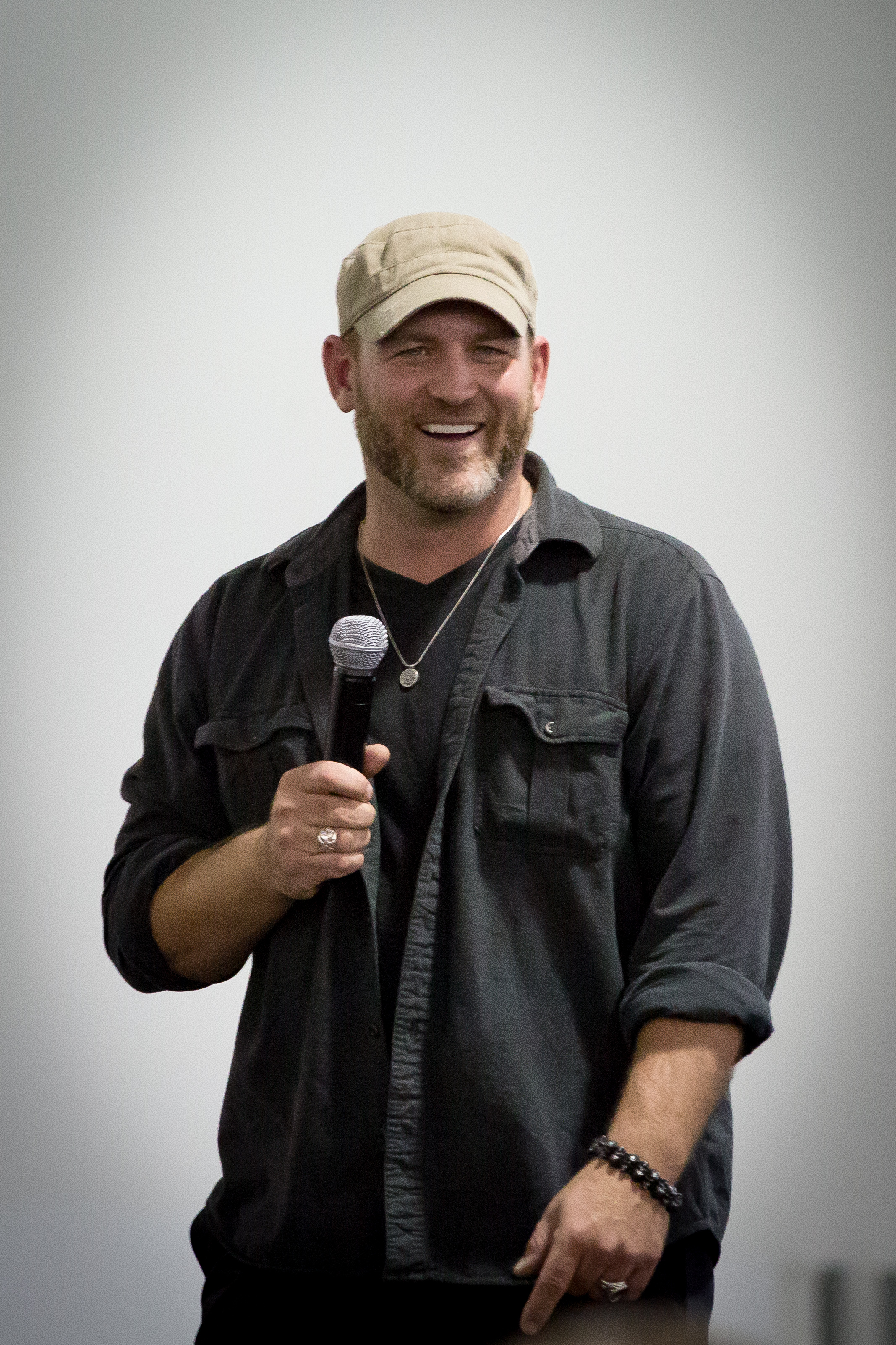 Ty Olsson at Armageddon Expo, Melbourne in 2013